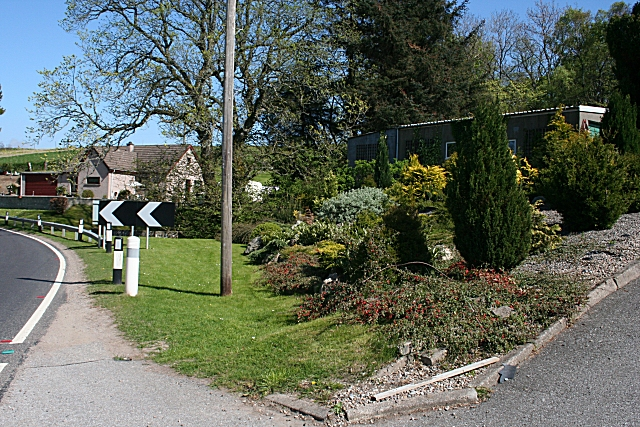 Maggieknockater Original description: Maggieknockater The village lines one side of the A95 trunk road. The occupants of a house out of view to the right have made an attractive garden here, almost on the roadside verge.